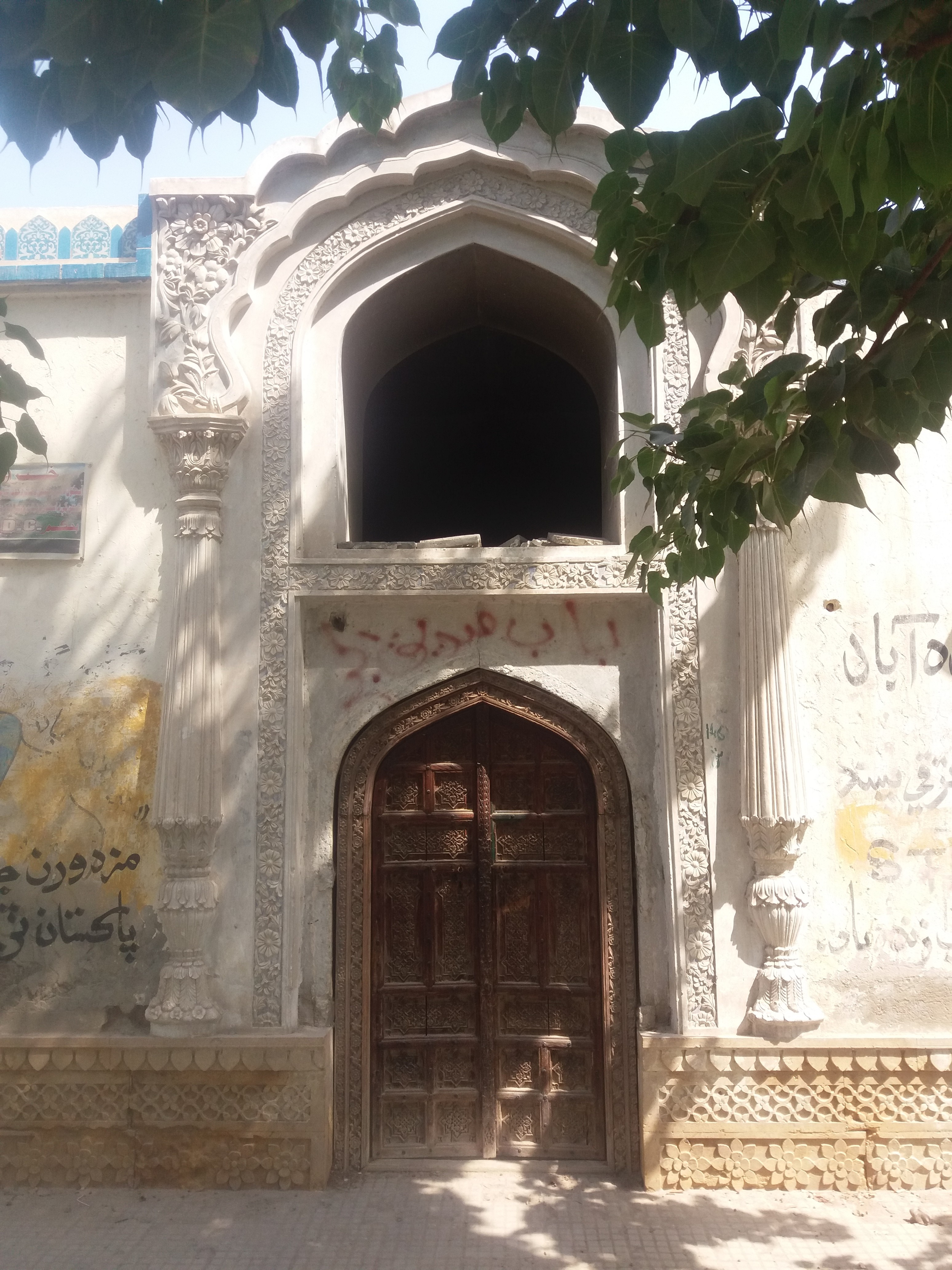 Front wooden door This is a photo of a monument in Pakistan identified as the SD-44